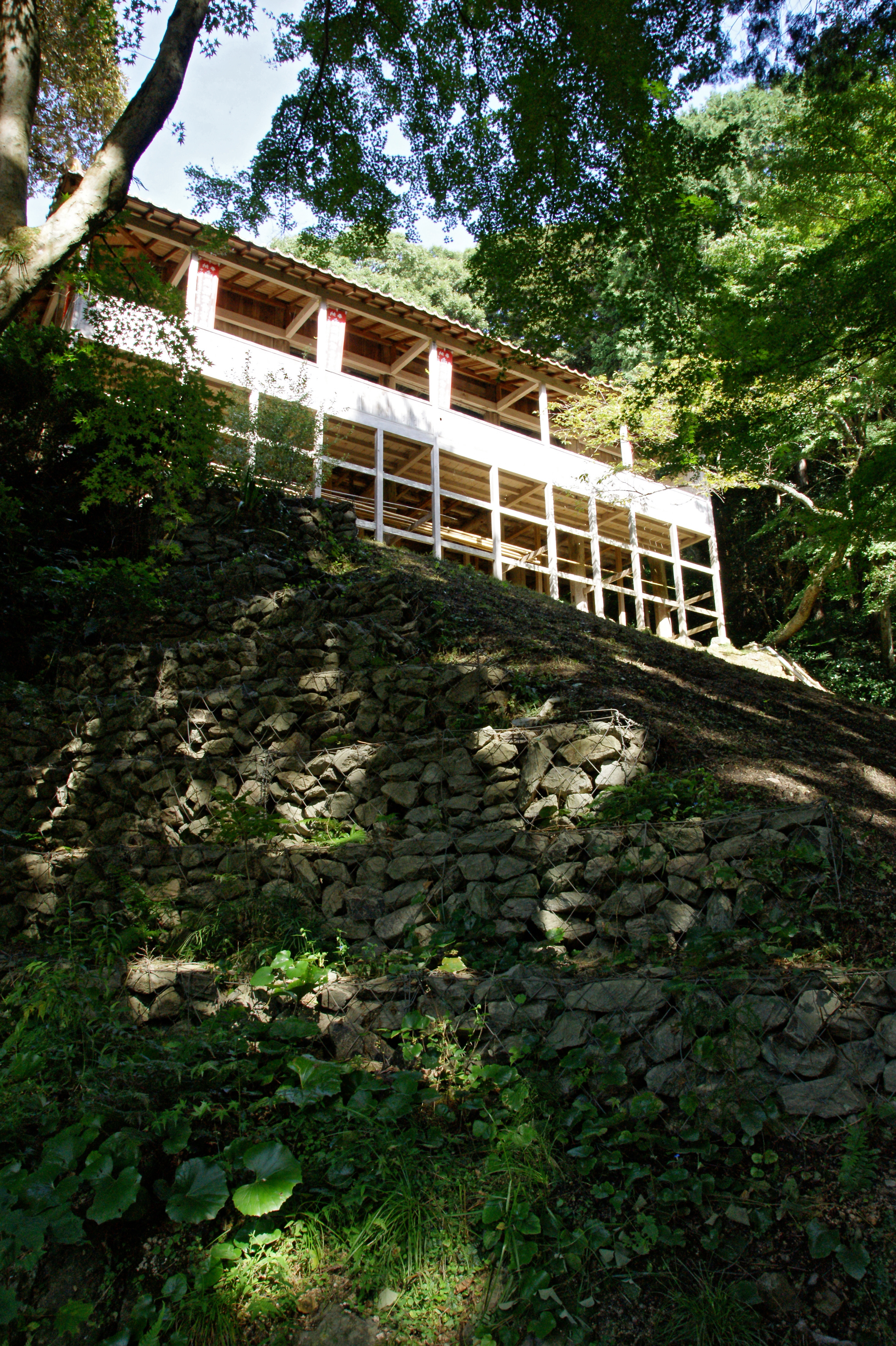 Hasedera (Choukoku-ji) in Kurayoshi, Tottori prefecture, Japan